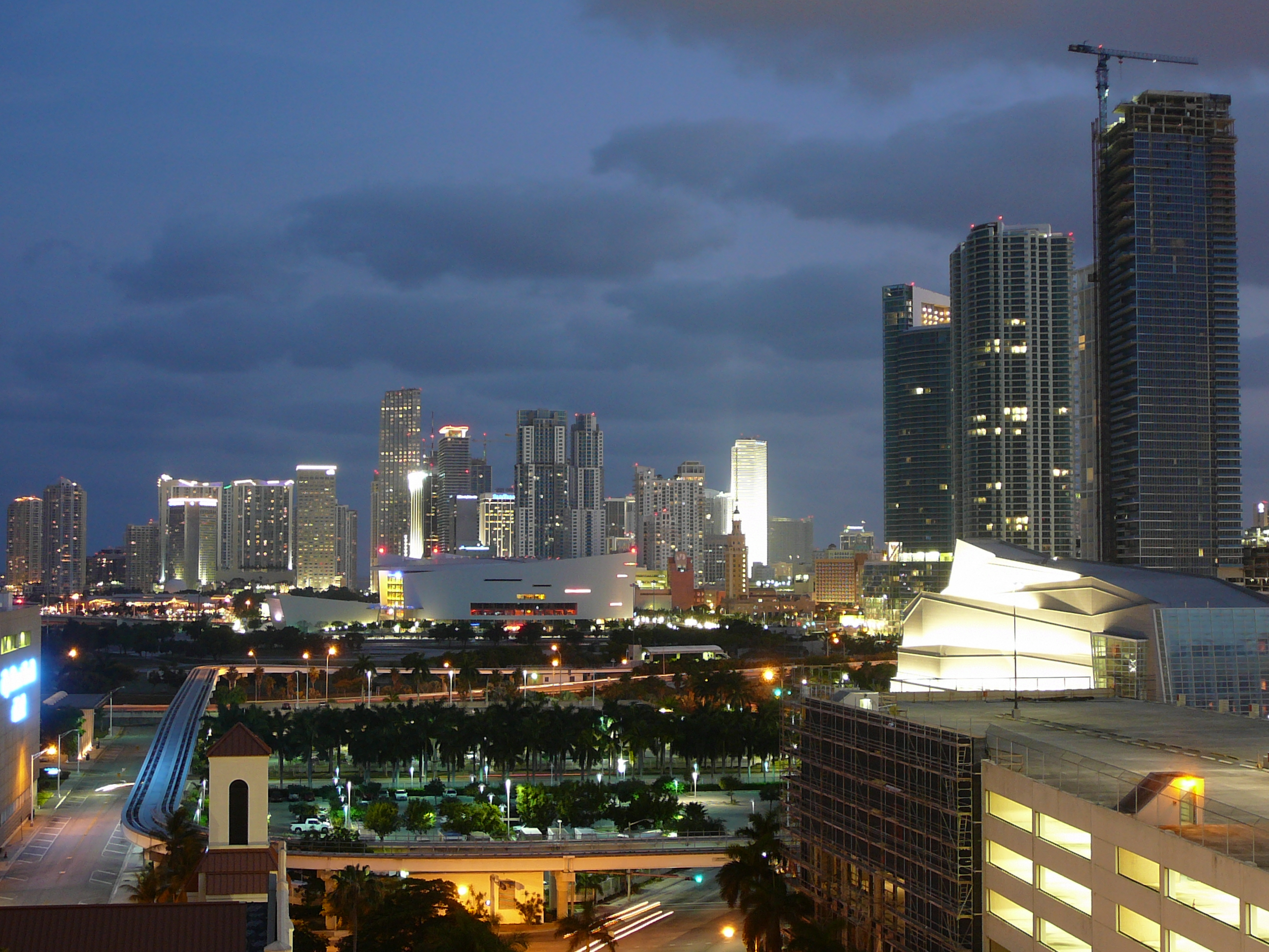 Digital photo taken by Marc Averette. View of Downtown Miami at night from the north 5/14/2008